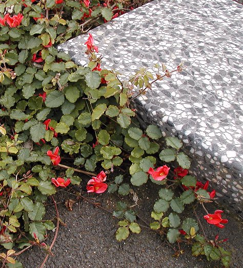 Kennedia prostrata Geelong Botanic Gardens Photo: cas Liber